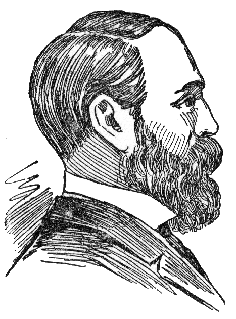 This image has been extracted, rotated, retouched and resaved from The New Student's Reference Work.